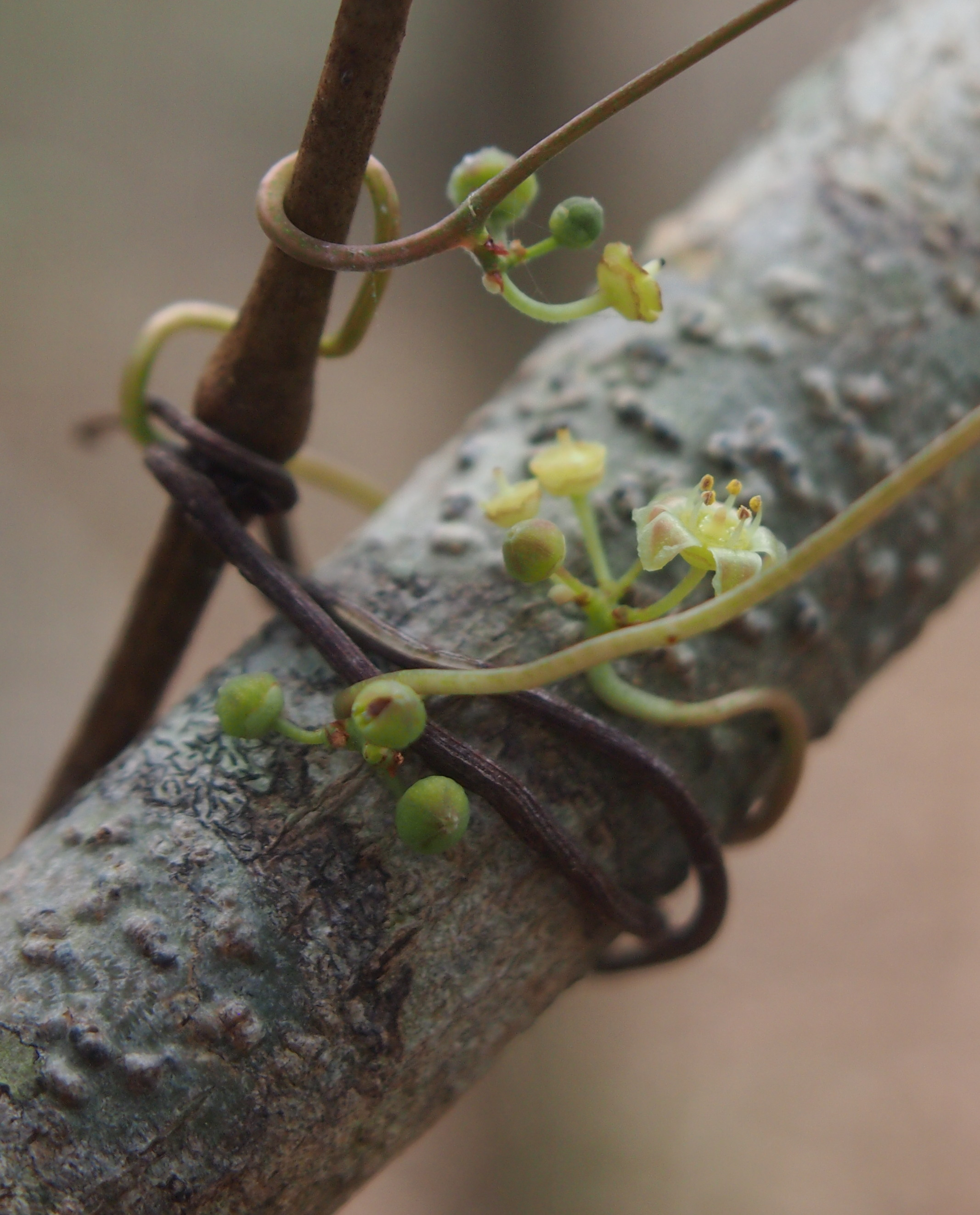 Clematicissus opaca flower